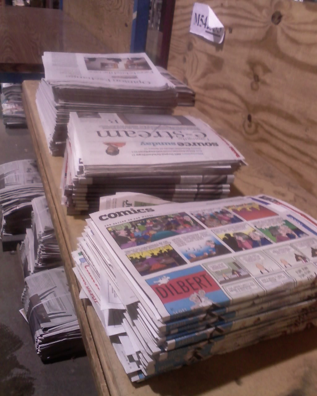 Star Tribune Assembly Process. Kiswahili: Star Tribune Mchakato wa uchapishaji.